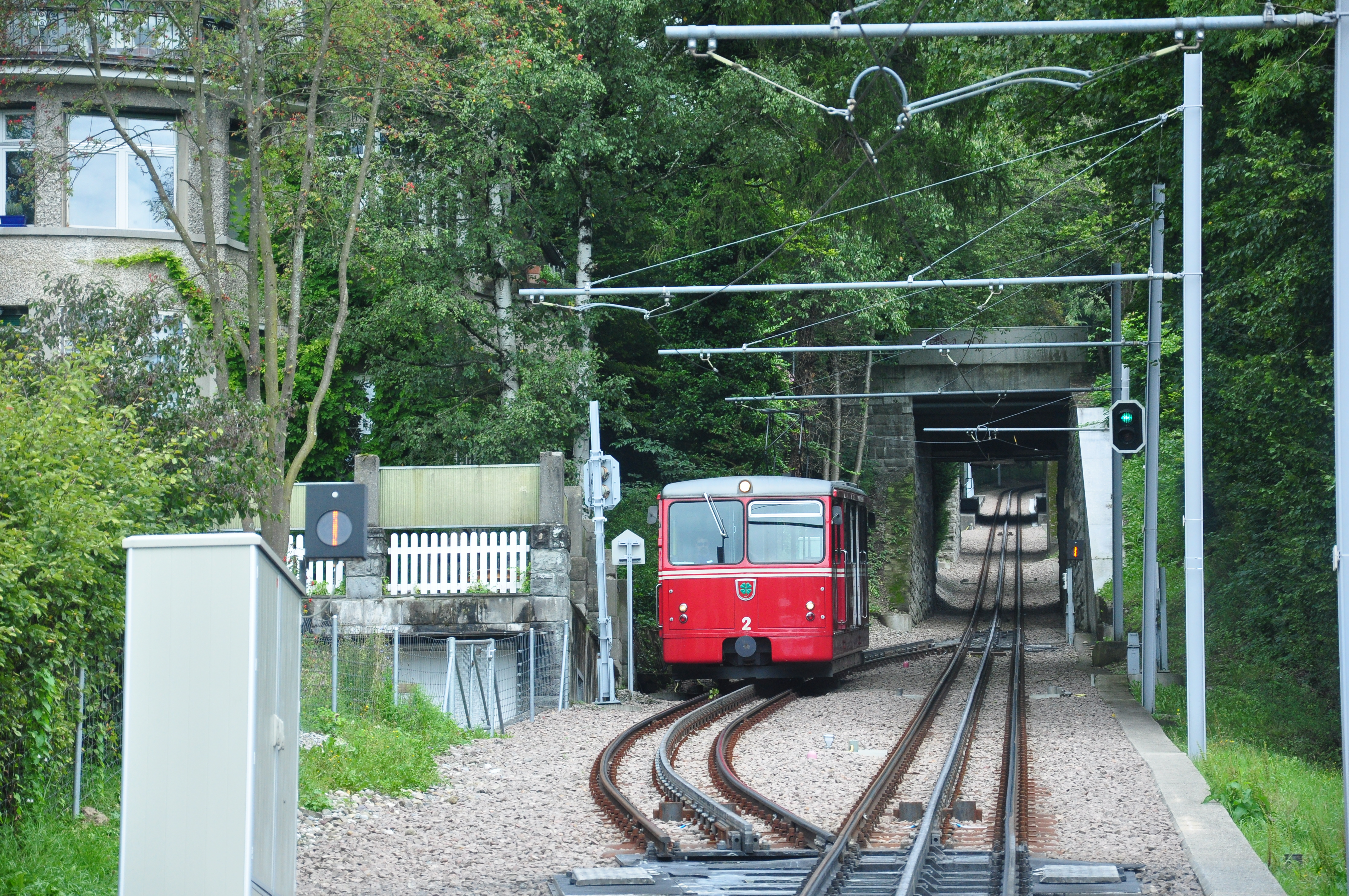 Dolderbahn tram No. 2 crossing tram No. 1